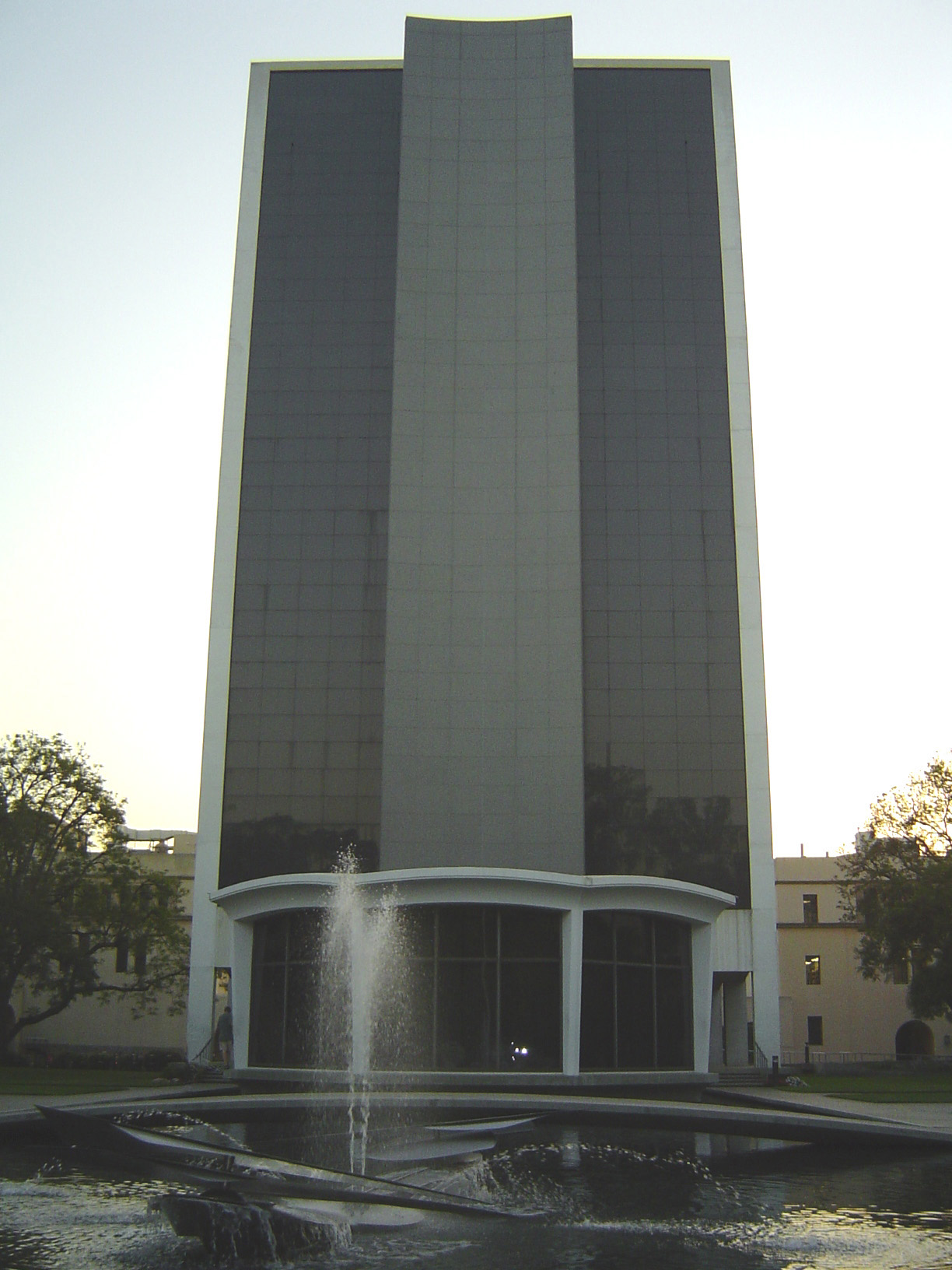 Millikan Library at Caltech. The library is designed by Flewelling and Moody and completed in 1967